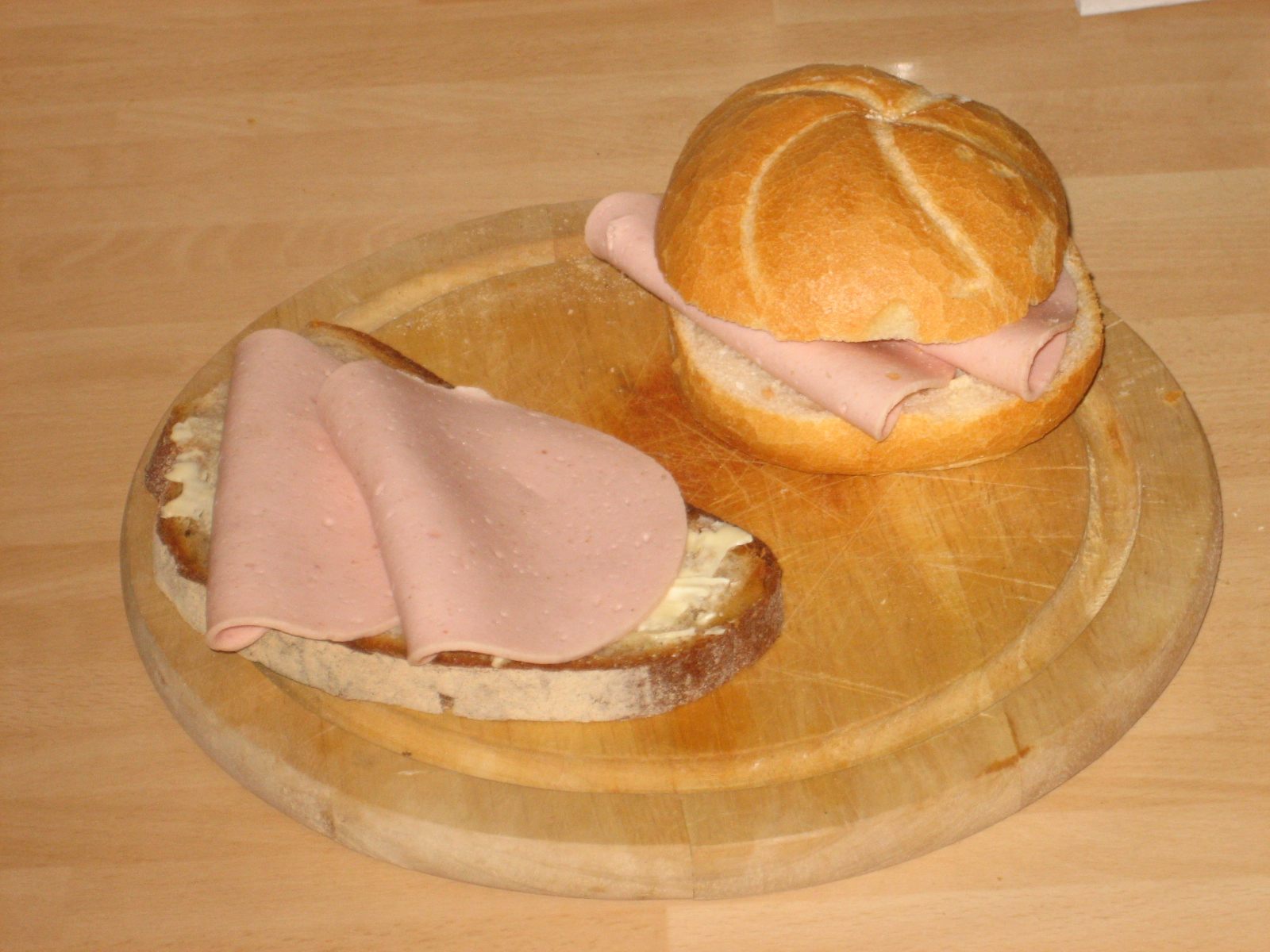 sandwich wurstbrot wurstbroetchen